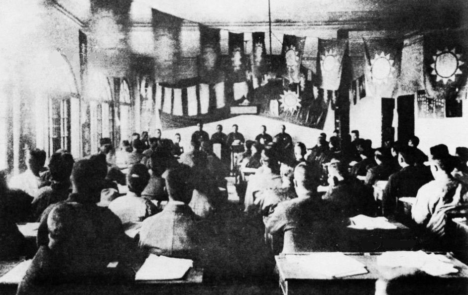 1925年11月23日，在孙中山停灵的西山碧云寺，邹鲁、谢持、林森等12名国民党人开会，反对容共政策。这些人被称为“西山会议派”，后遭到国民党二大处分。图为碧云寺开会情景。